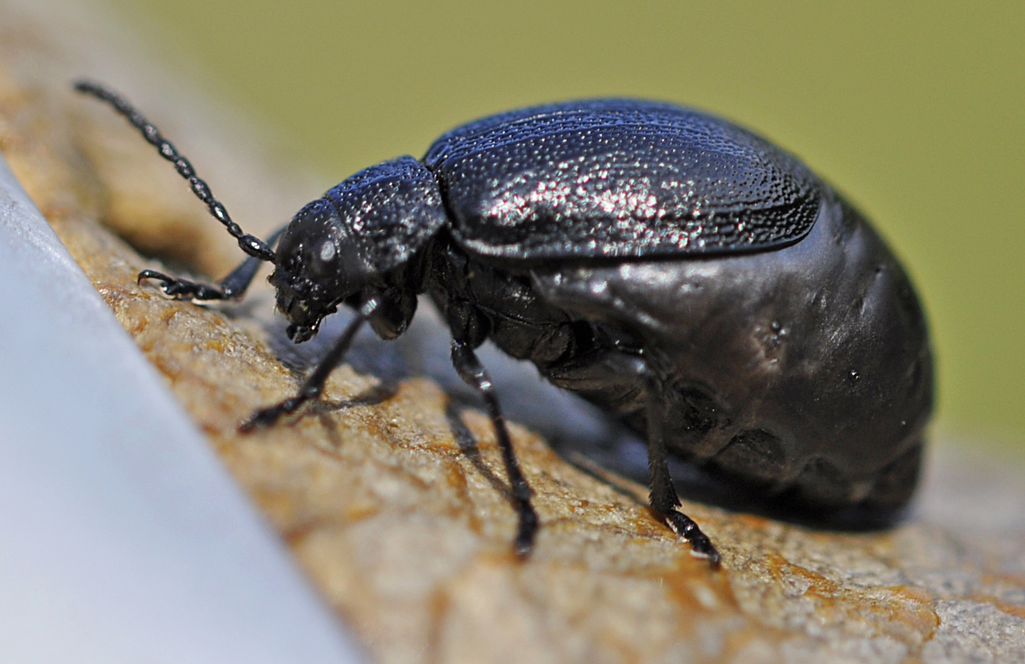 Galeruca tanaceti (Linnæus, 1758). Germany: Thüringen, Eichsfeld, Höheberg 1 km N of Lindewerra (Lindewerrablick).